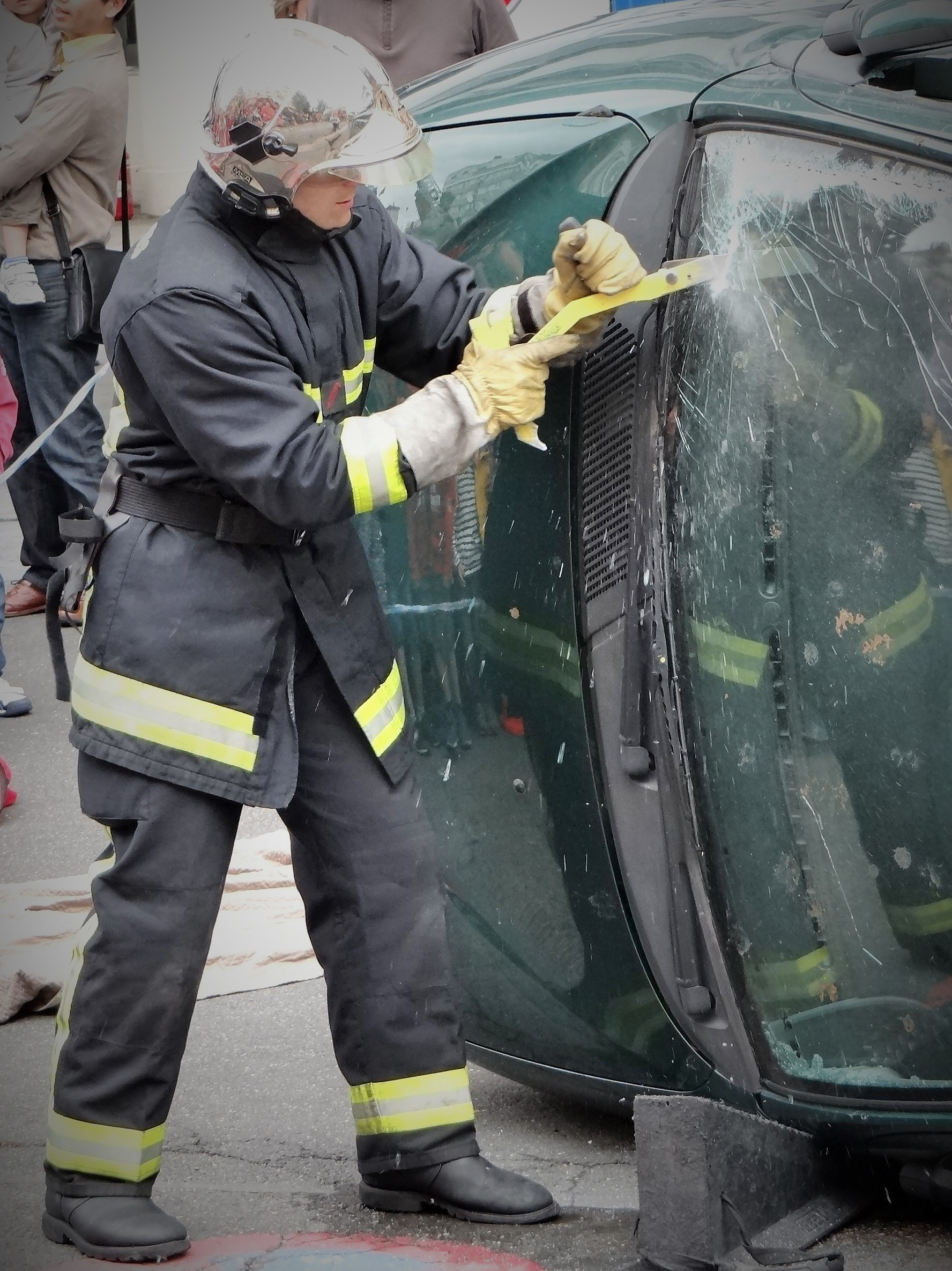 rescue demonstration to victim by the fireman of Paris, Montrouge, France